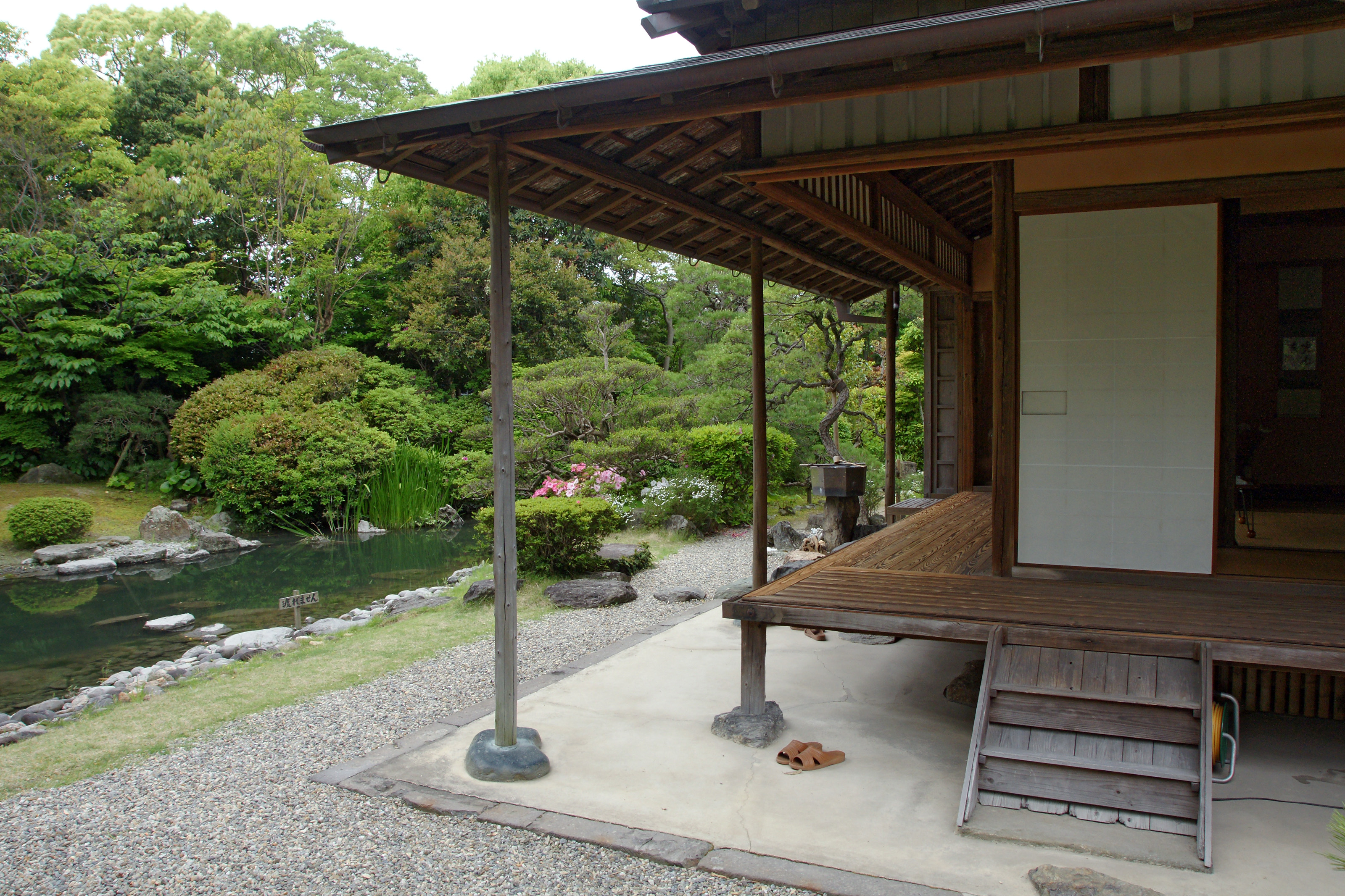 Old Toshima House, Yanagawa, Fukuoka prefecture, Japan